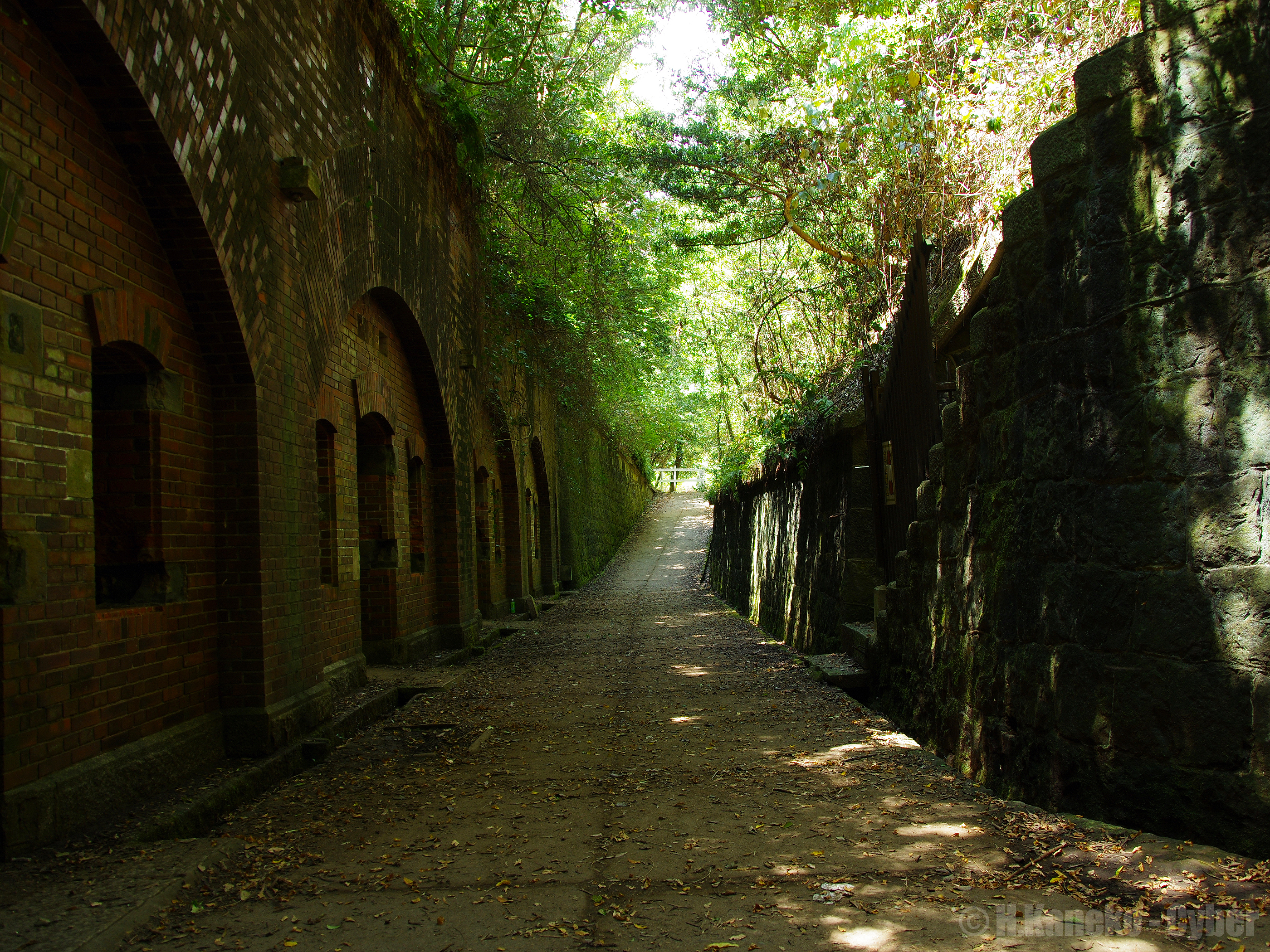 友ヶ島の戦争遺産 (War heritage at Tomogashima) 21 Aug, 2013